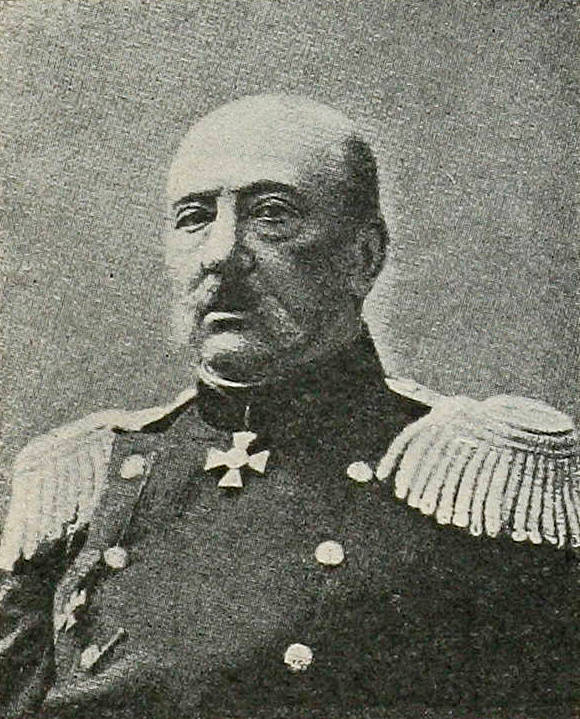 Komarov, Konstantin Vissarionovich